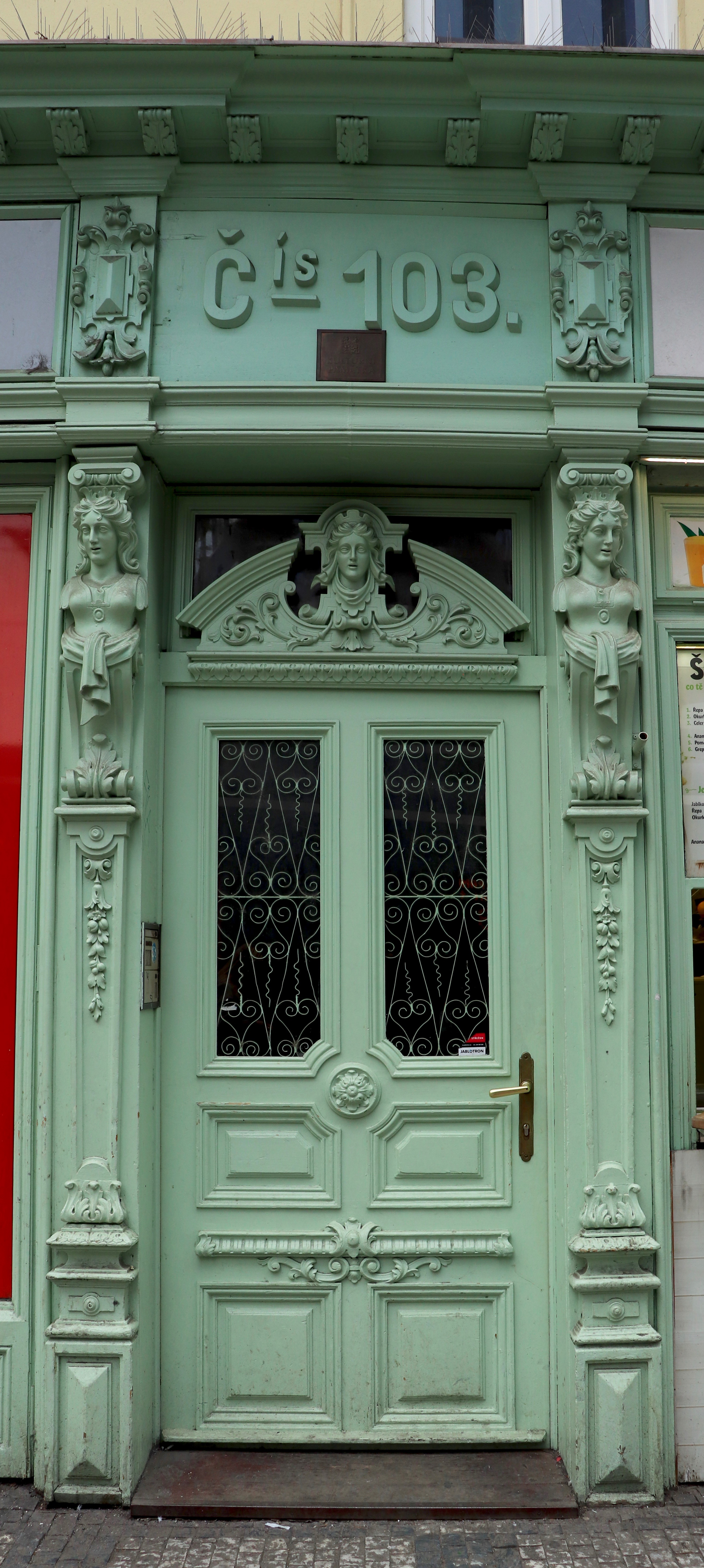 Secesní dveře domu